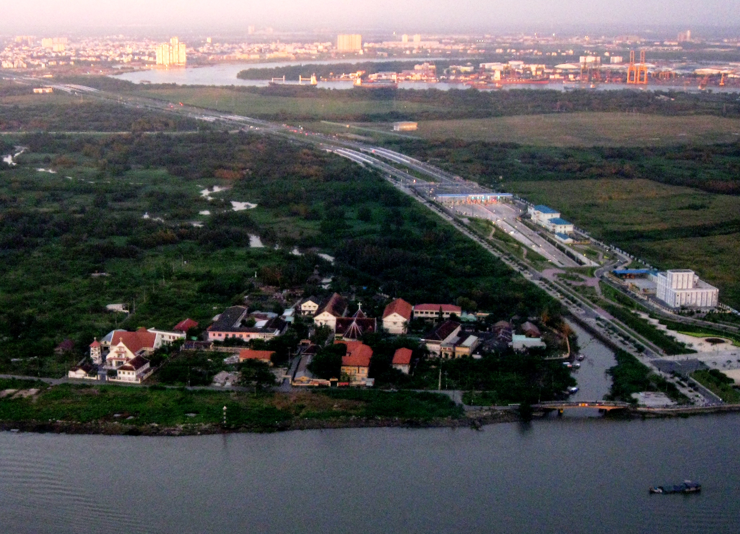 skyview from Bitexco Financial Tower on highway to northeast of Ho Chi Minh City to proposed airport Long Thành, approx 40 km northeast of Ho Chi Minh City.